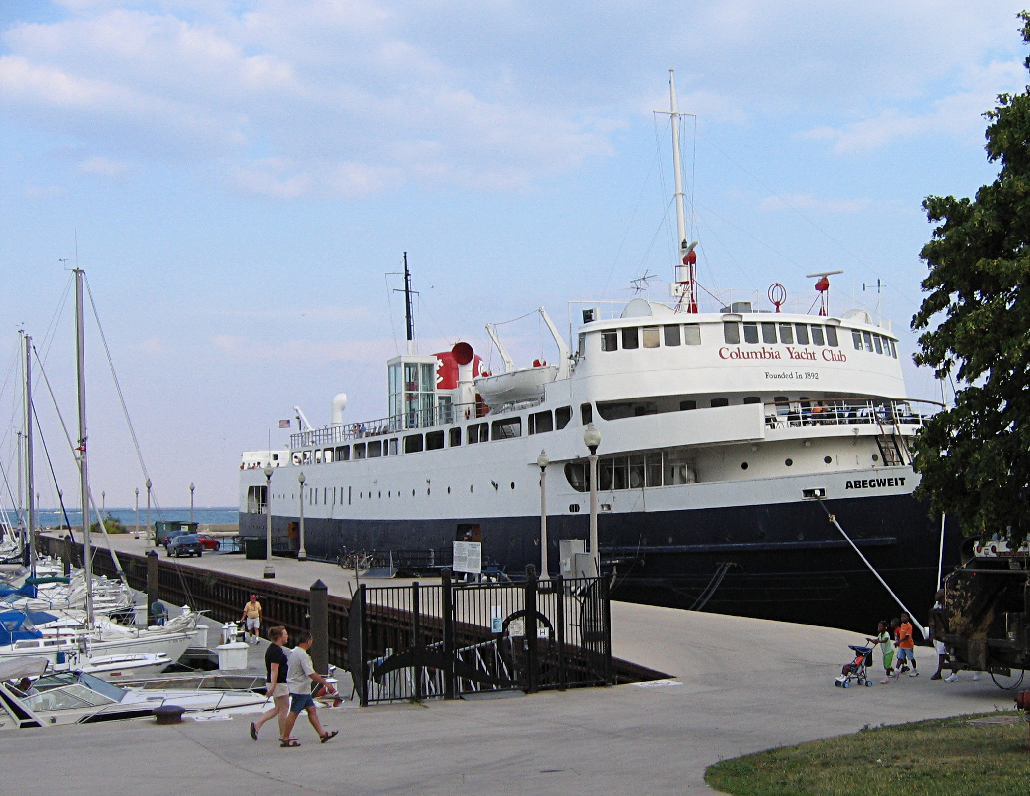 The original MV Abegweit, after retirement from PEI ferry service, she served as a clubhouse in Chicago.